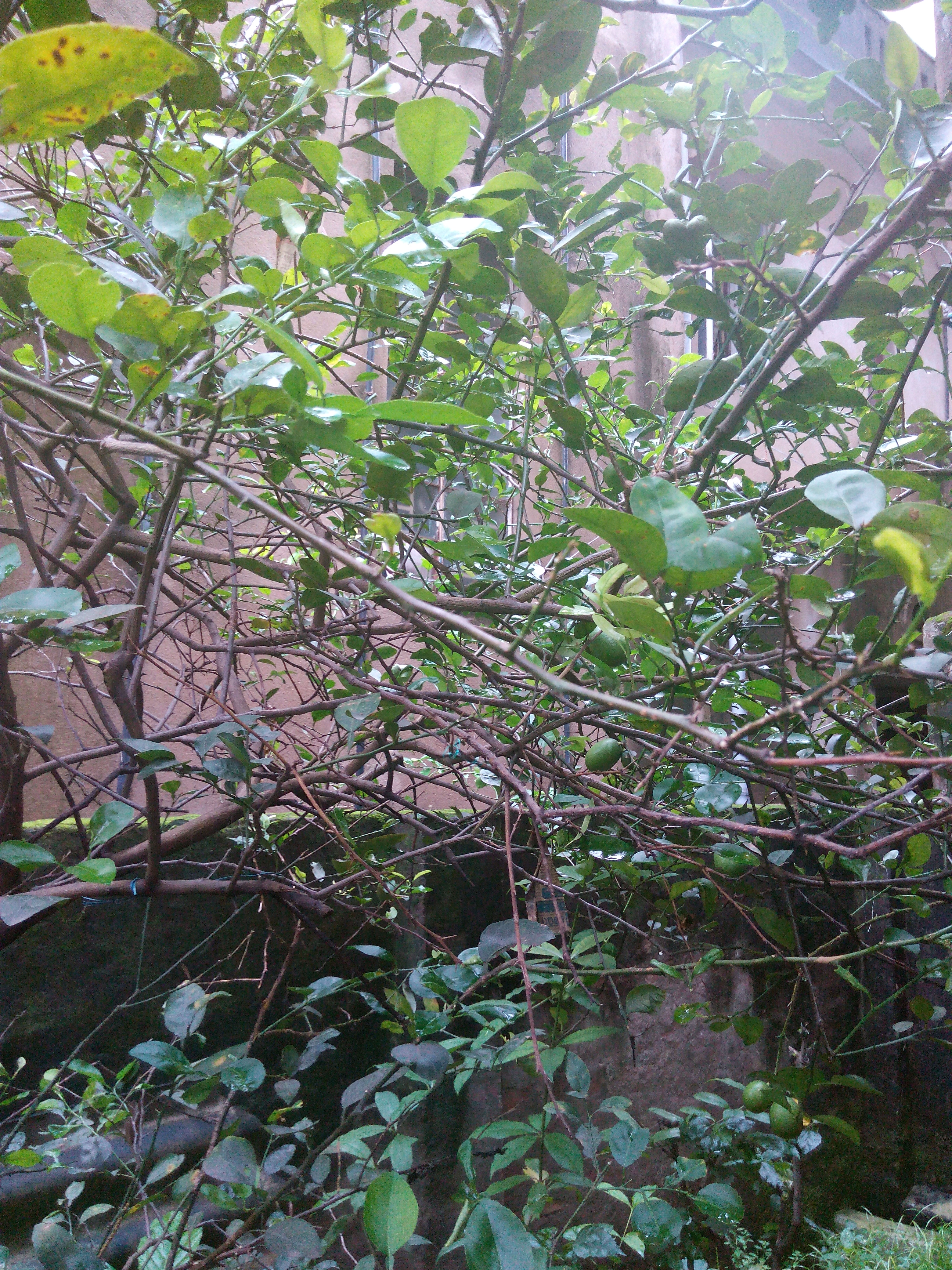 Fruit in the Kitchen Garden